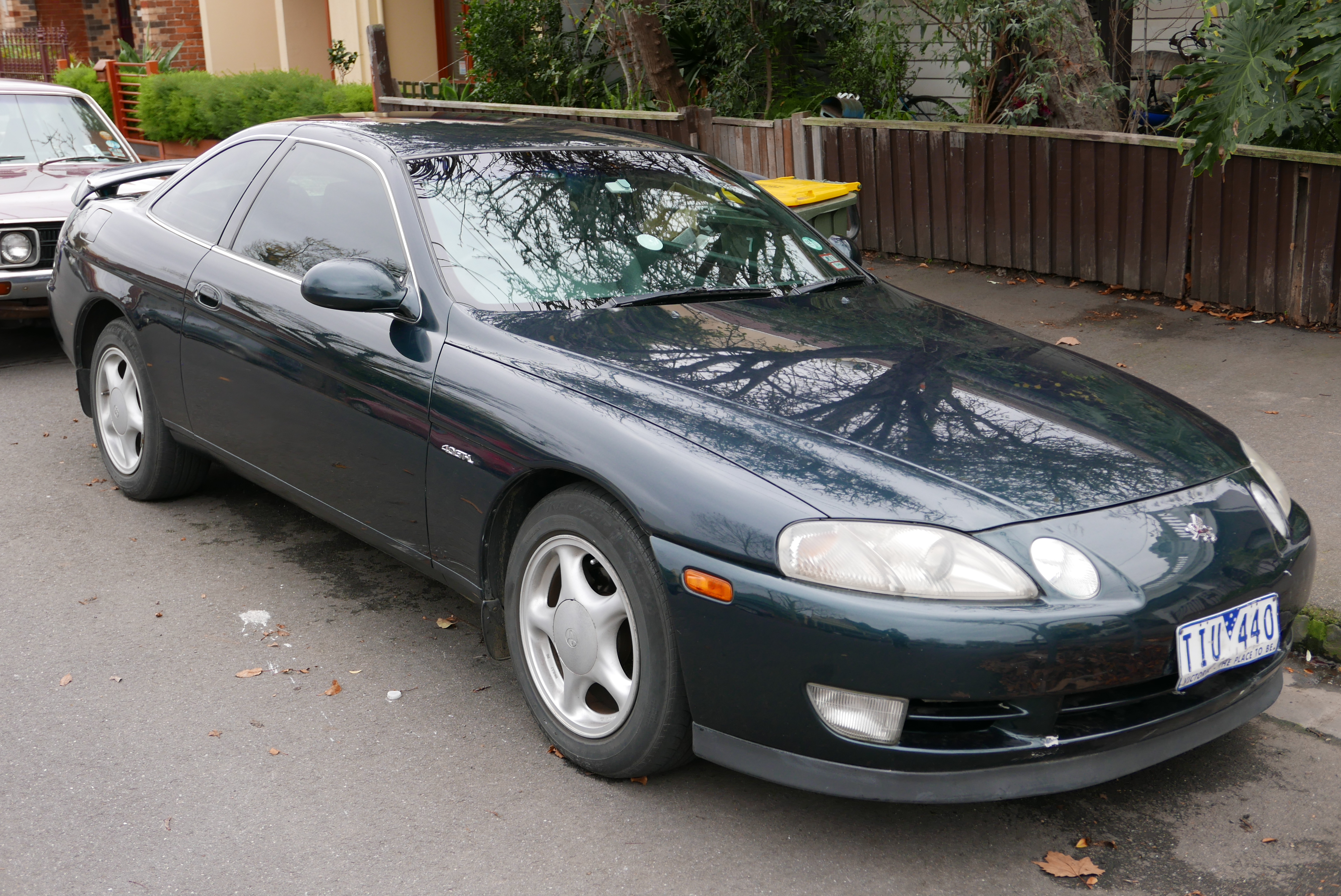 1992 Toyota Soarer (UZZ31) 4.0GT-L coupe. This is a grey import from Japan, complianced for Australia in August 1997. Photographed in Fitzroy North, Victoria, Australia. Vehicle registration enquiry results Jurisdiction Victoria Registration TIU440 Chassis code 6D91MP0RTVHM81017 Engine code 1UZ0219417 Compliance date 1997-08 Year of manufacture 1992